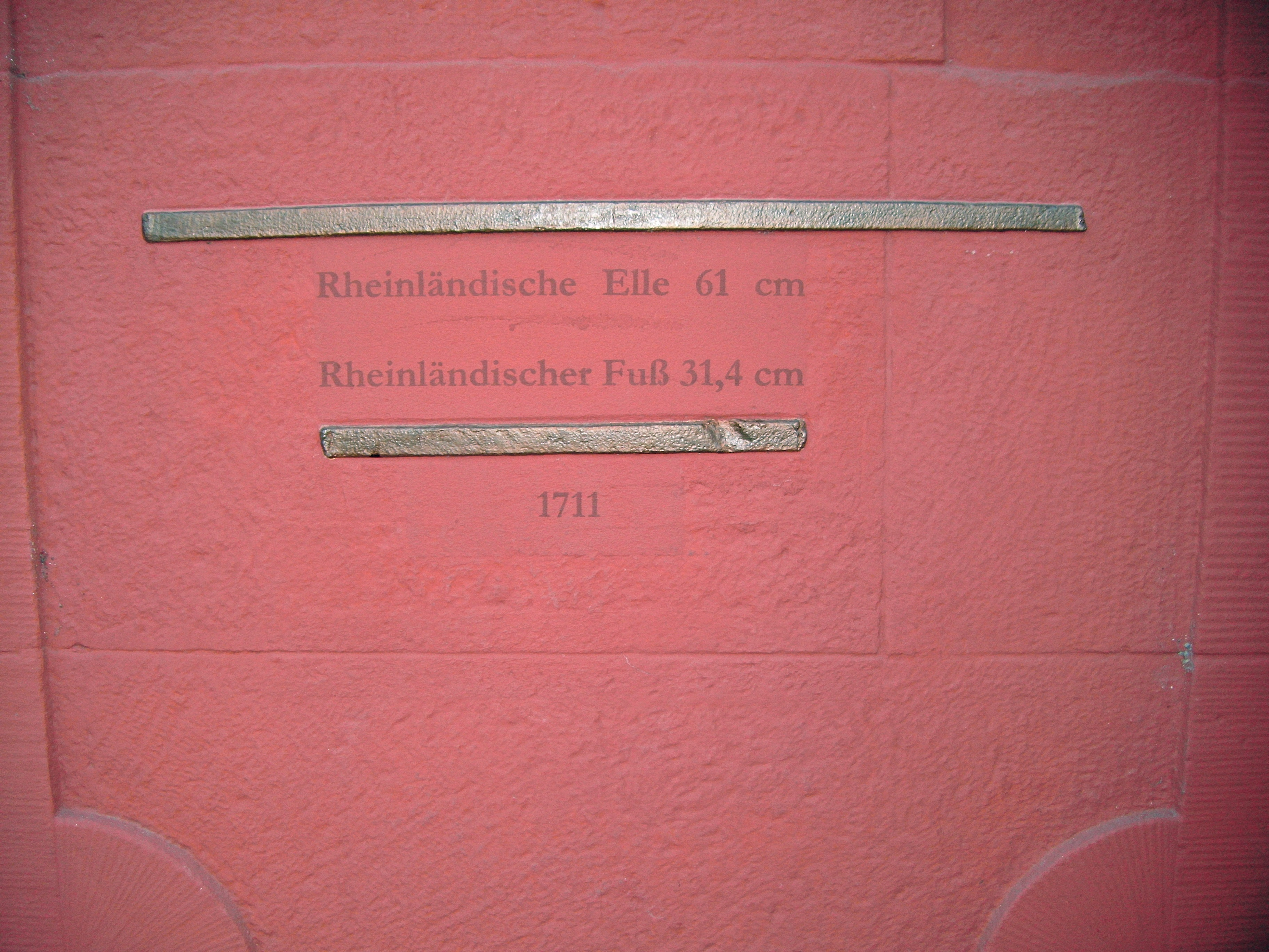 Rheinische Elle und Rheinischer Fuß, öffentliches Maß am alten Rathaus Mannheim (1711)